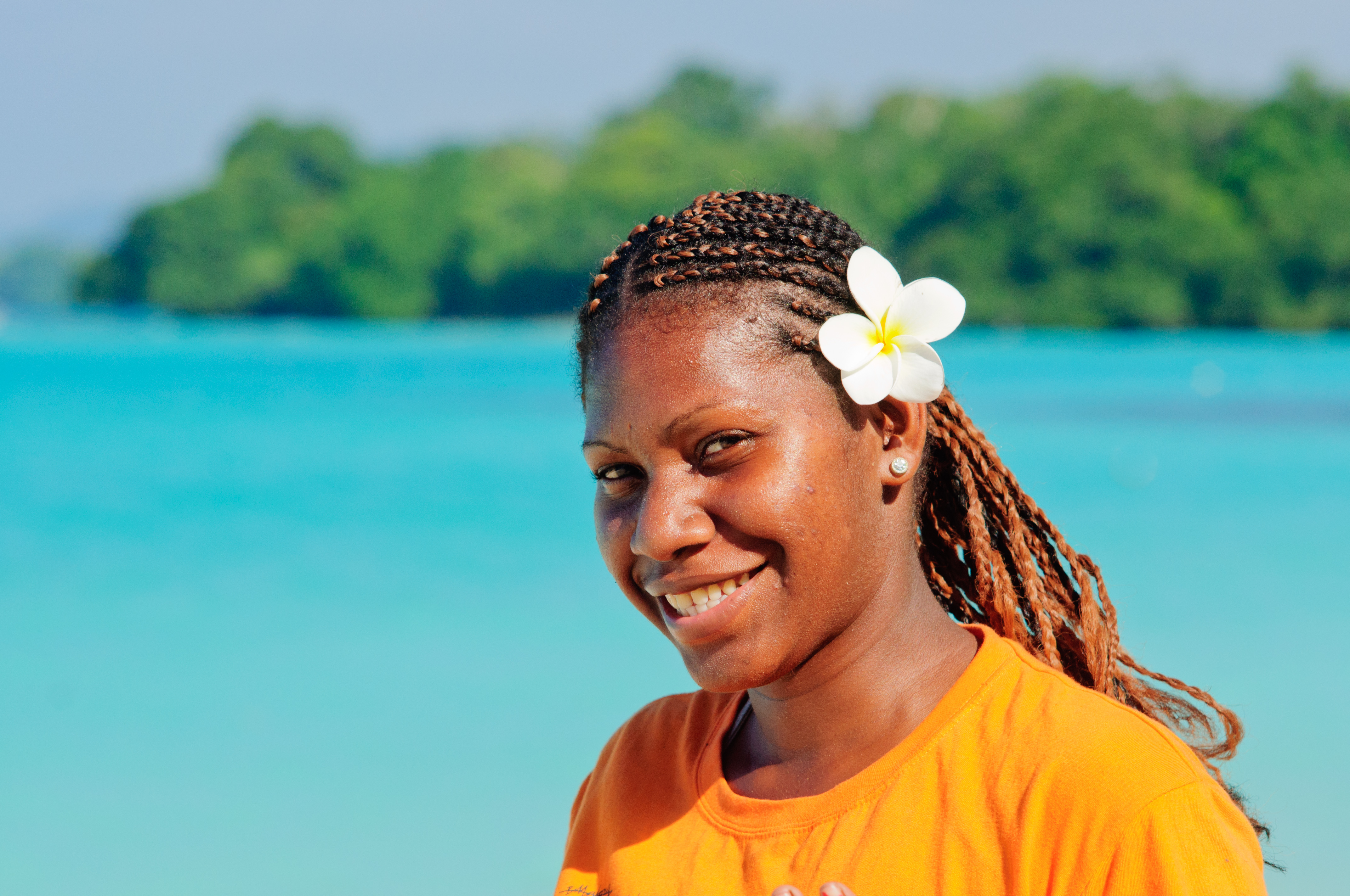 People of Vanuatu